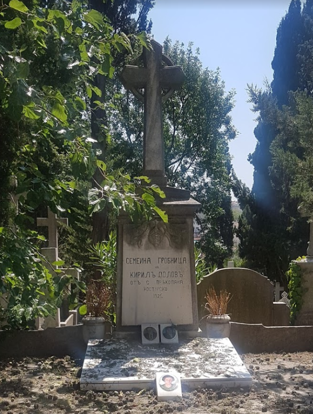 Bulgarian cemetery in istanbul